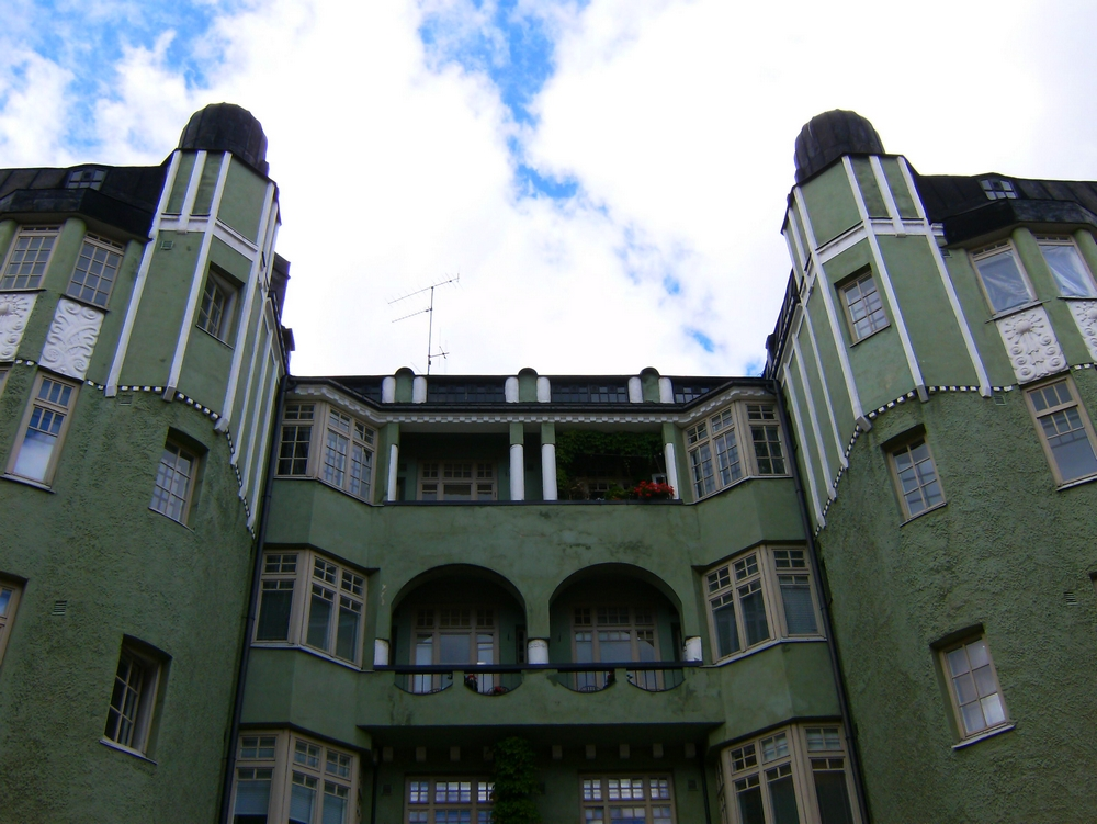 Kalevankatu 11, Helsinki, Finland